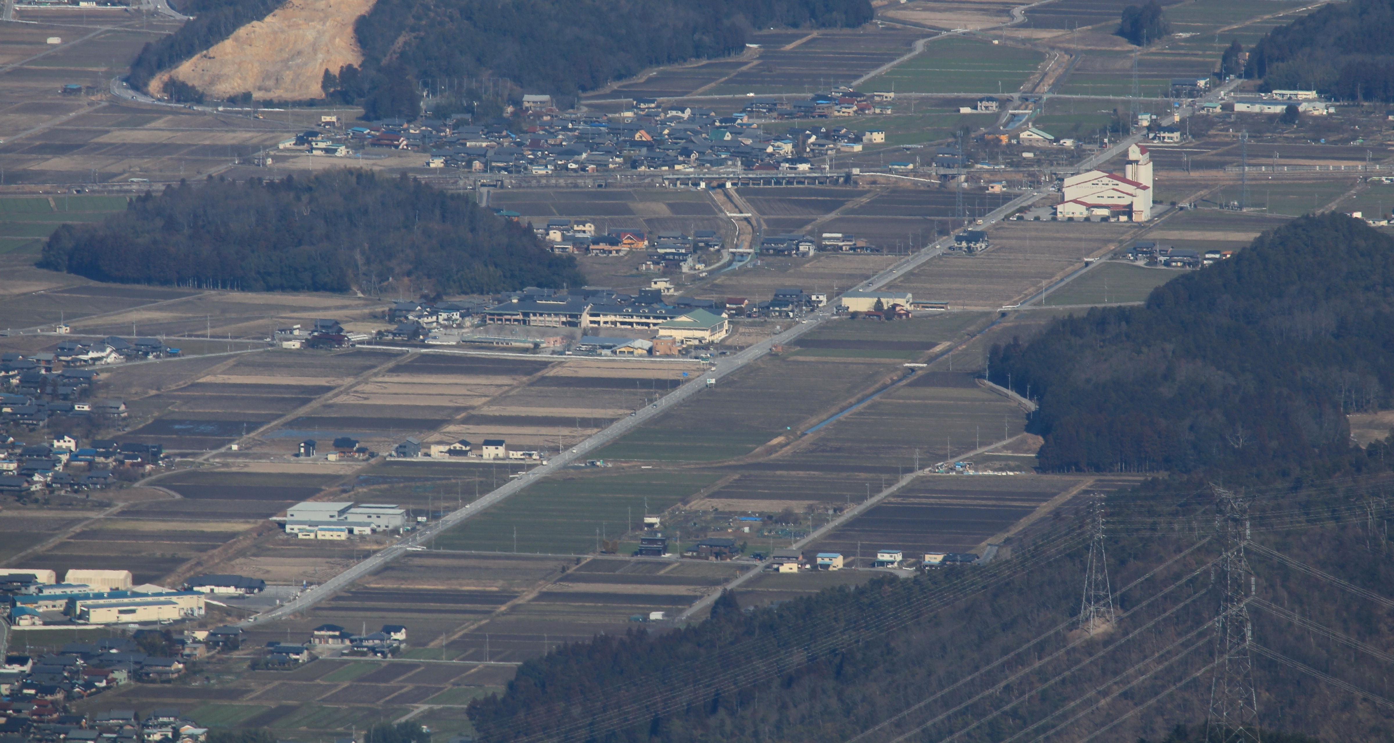 Shiga Prefectural Road Route 19 seen from Mount Ryozen (Suzuka Mountains) in Maibara, Shiga prefecture, Japan.